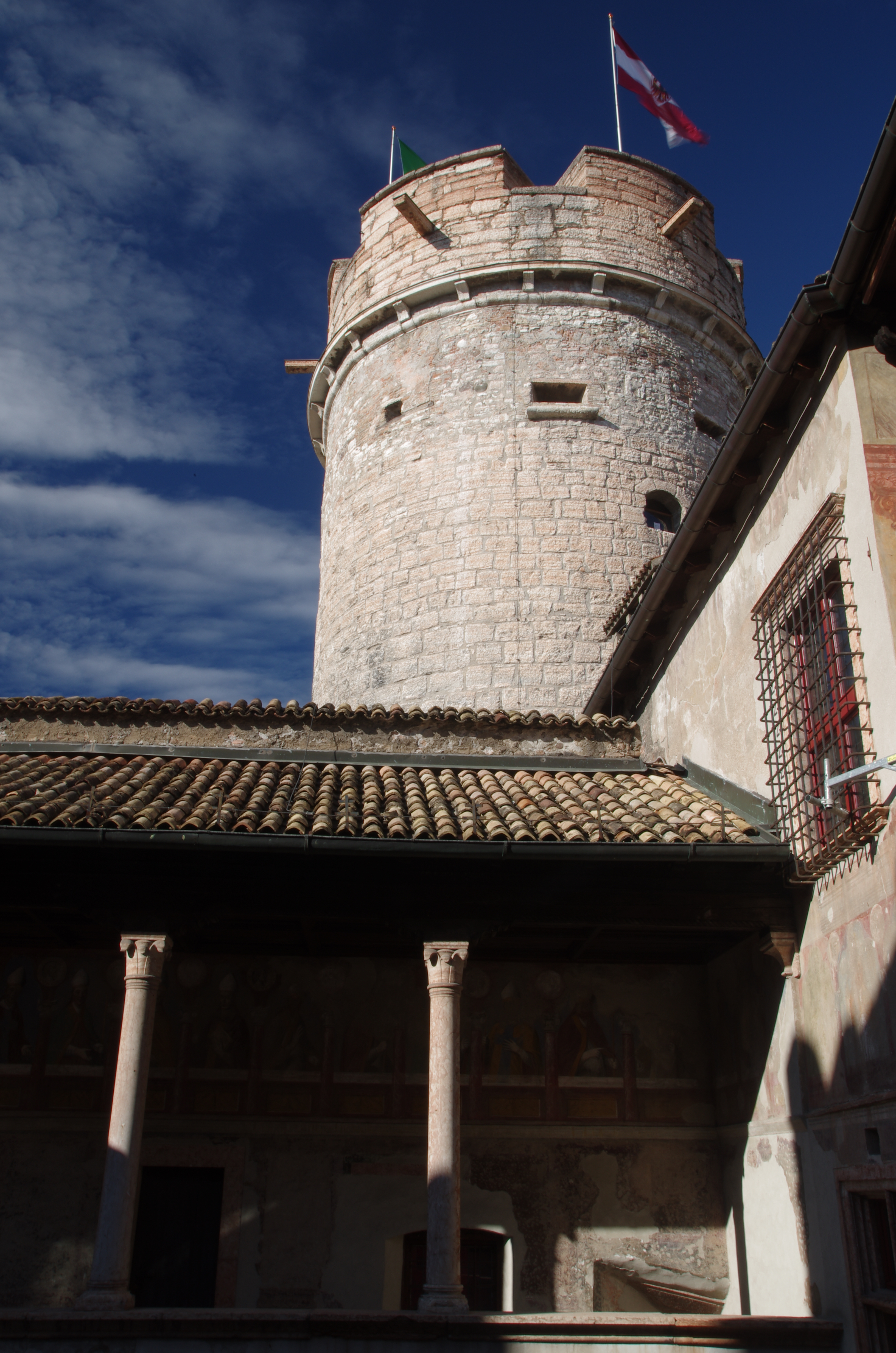 10 2014 Trento - Buonconsiglio castle - first building (old castle) - Mastio or Augusto Tower, Sodegerio from Tito's time - view from courtyards's Loggia International Gothic, Johannes Hinderbach's time - ITALY- K-5 II -Tamron AF 17-50mm F2.8-photo Paolo Villa FOTO8909